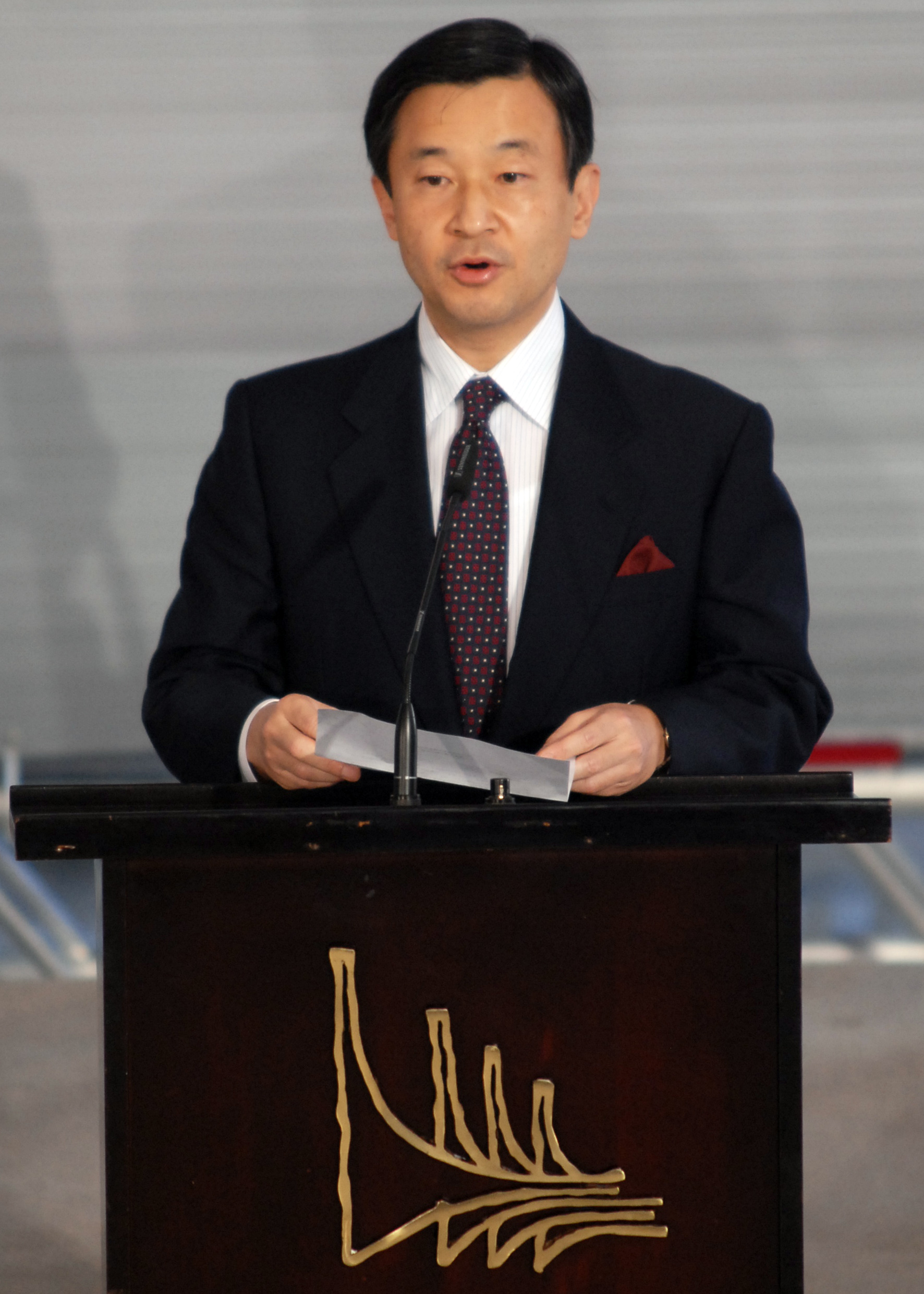 Naruhito, Crown Prince of Japan, in Brazil